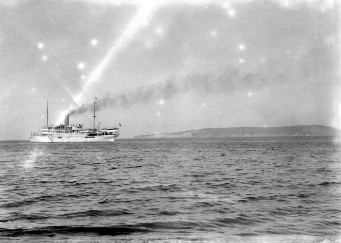 Steamship Rumphius